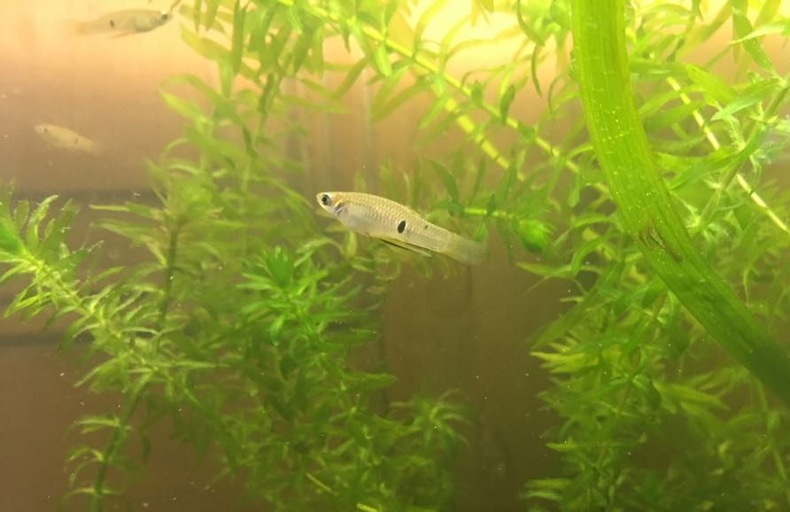 wild phenotype of this species